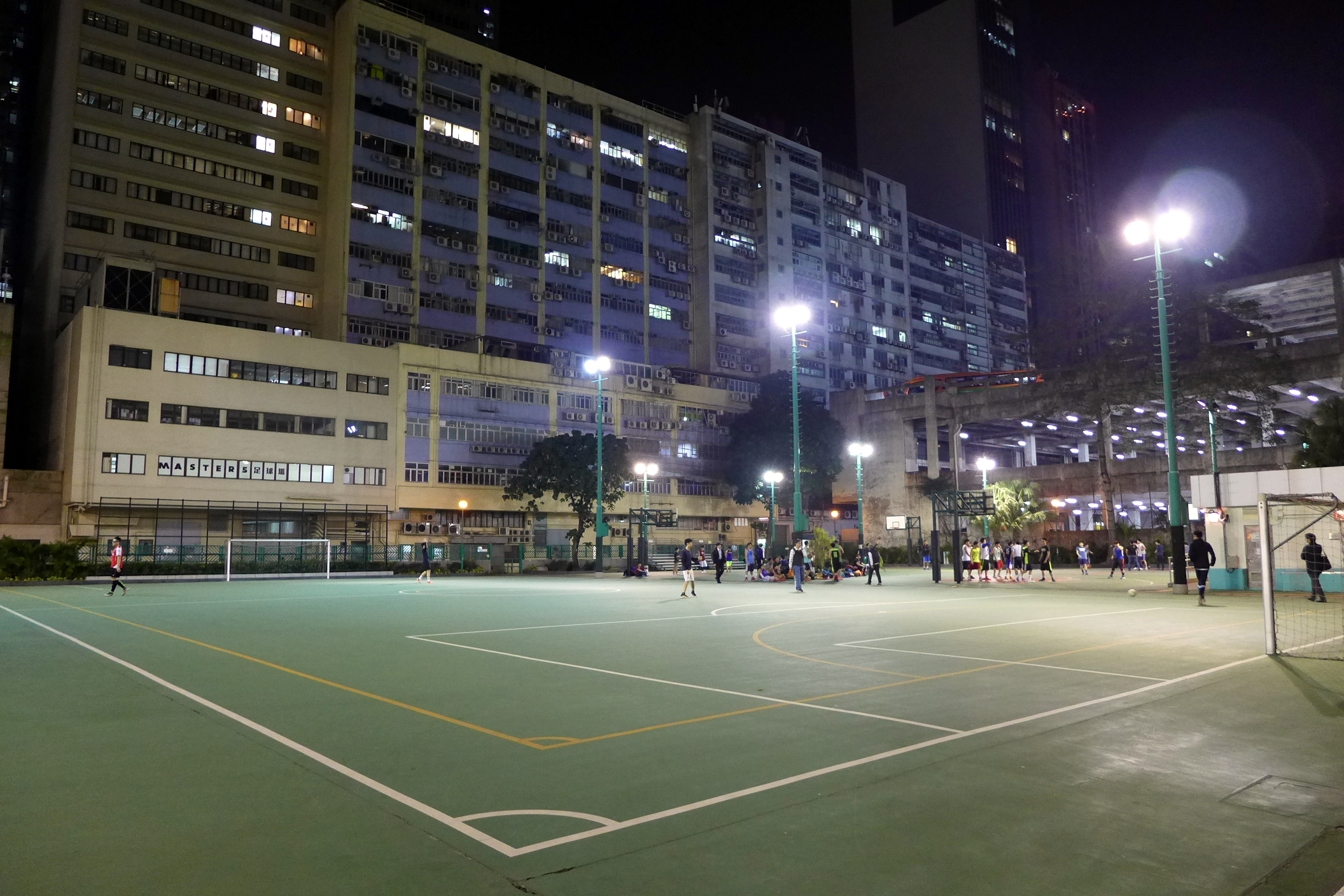 Tsun Yip Street Playground Socceer Pitch